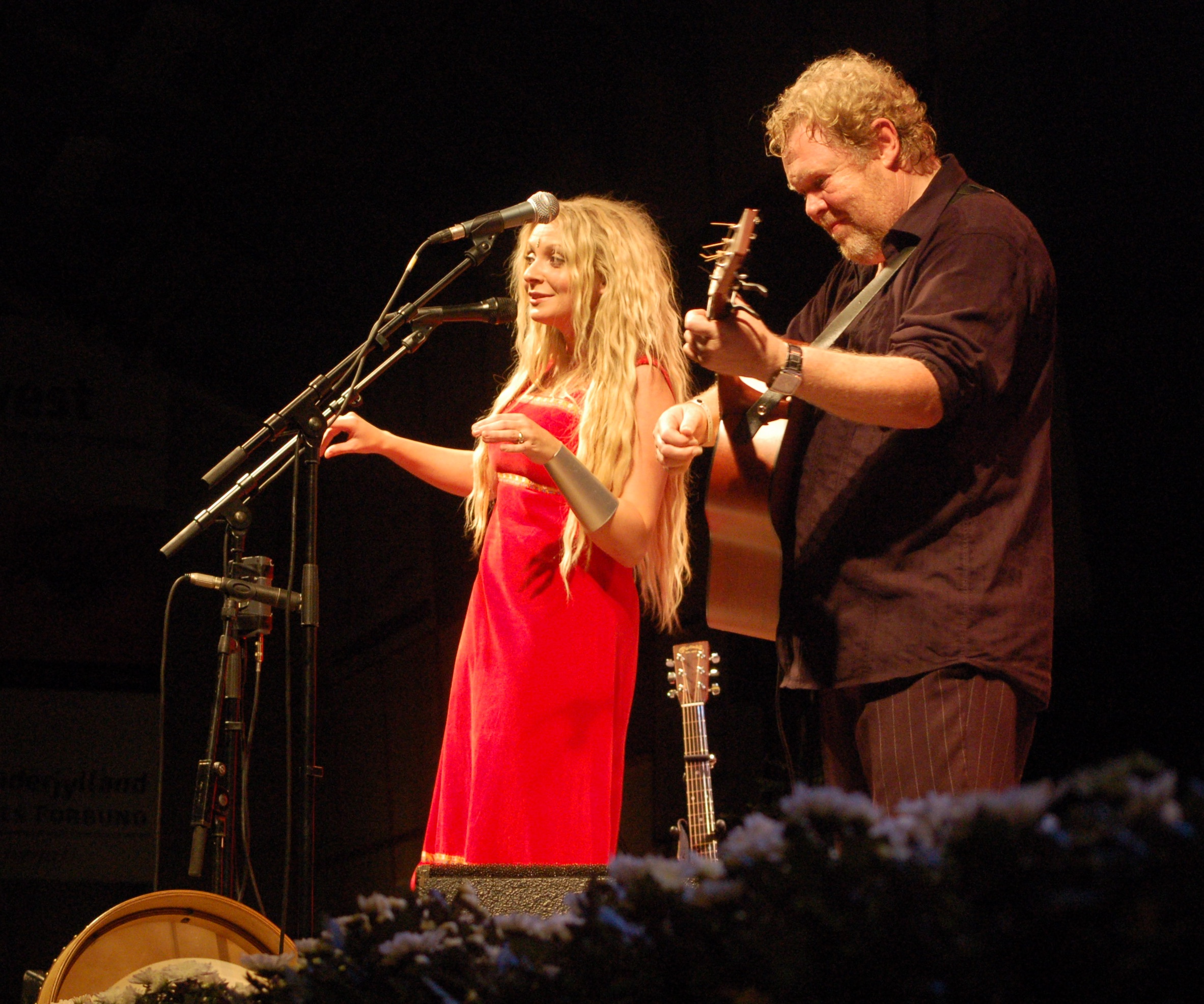 Eivør Pálsdóttir and Sebastian (Danish musician) on stage in Tønder, 25 August 2006